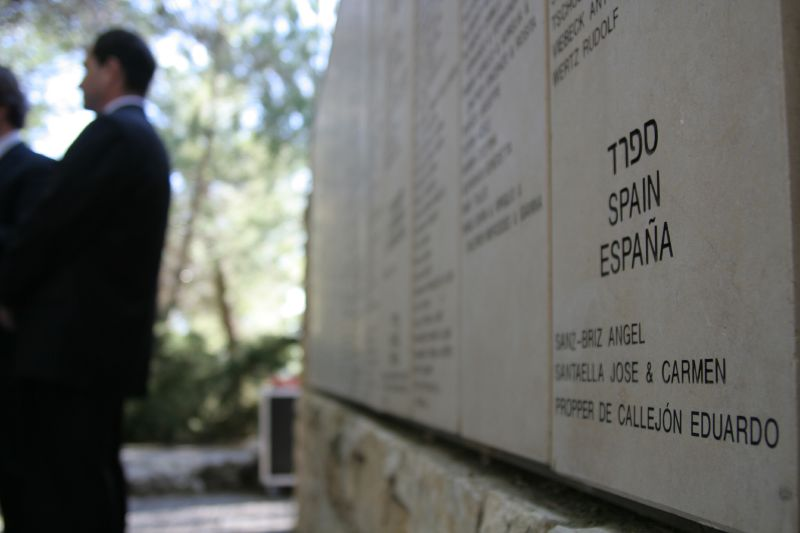 A Spanish diplomat who saved the lives of hundreds of French Jews as the Nazis advanced on Paris, honoured at Yad Vashem, March 2008.